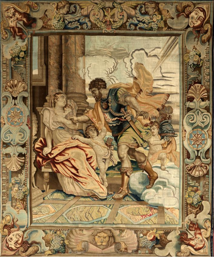 Mars appears to Rhea Silvia